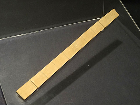 A wooden ruler of the Western Han Dynasty (206 BCE – 9 CE), its length is 1 chi(Chinese foot),i.e. 23.2cm. unearthed at Jinguan Pass Site in Jinta County, photographed at Gansu Provincial Museum